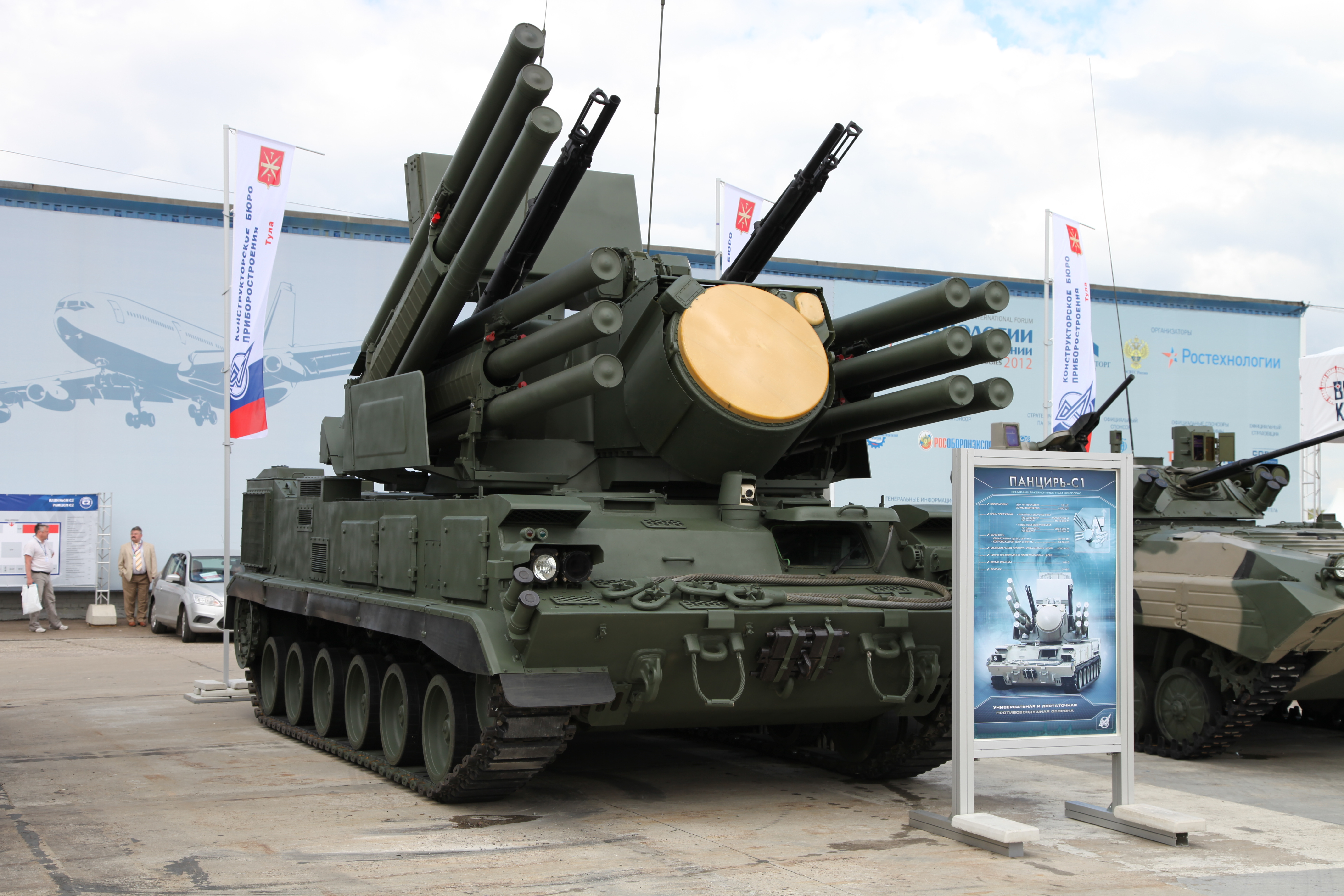 Anti-aircraft weapon system "Pantsir-S1" at the «at Engineering Technologies 2012».